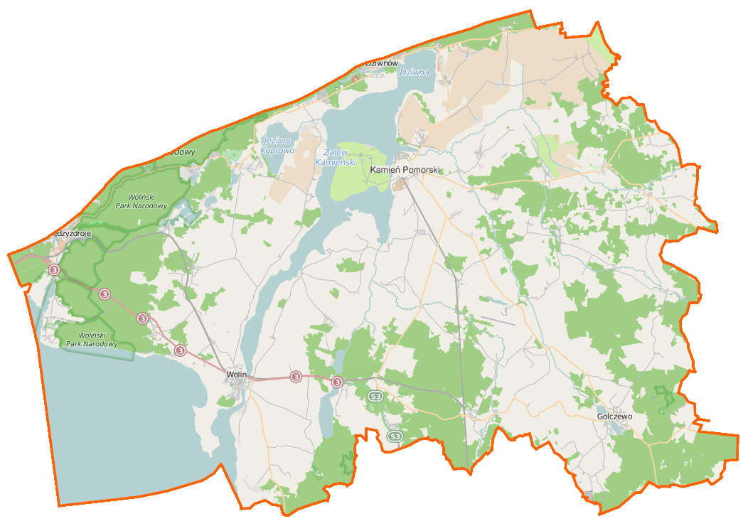 Map of Powiat kamieński, Poland This map of Powiat kamieński was created from OpenStreetMap project data, collected by the community. This map may be incomplete, and may contain errors. Don't rely solely on it for navigation.